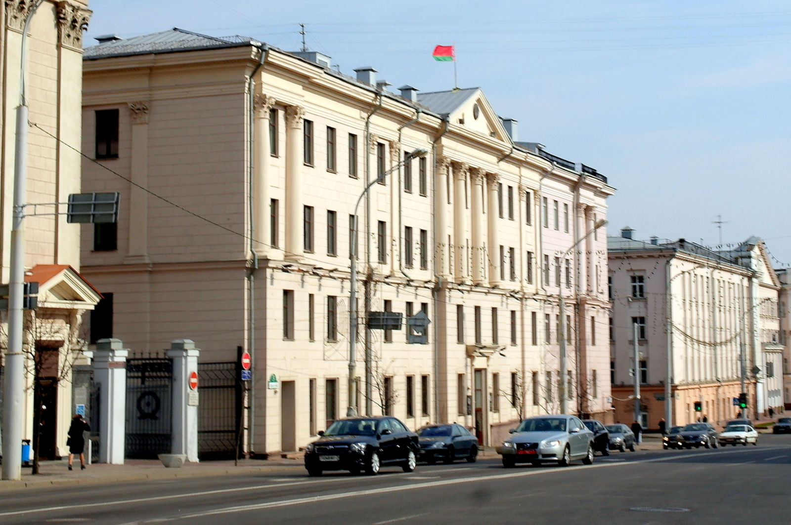 Minsk Regional Court building, 3. Sviardlova (Sverdlov) street, Minsk. It was built in 1953.